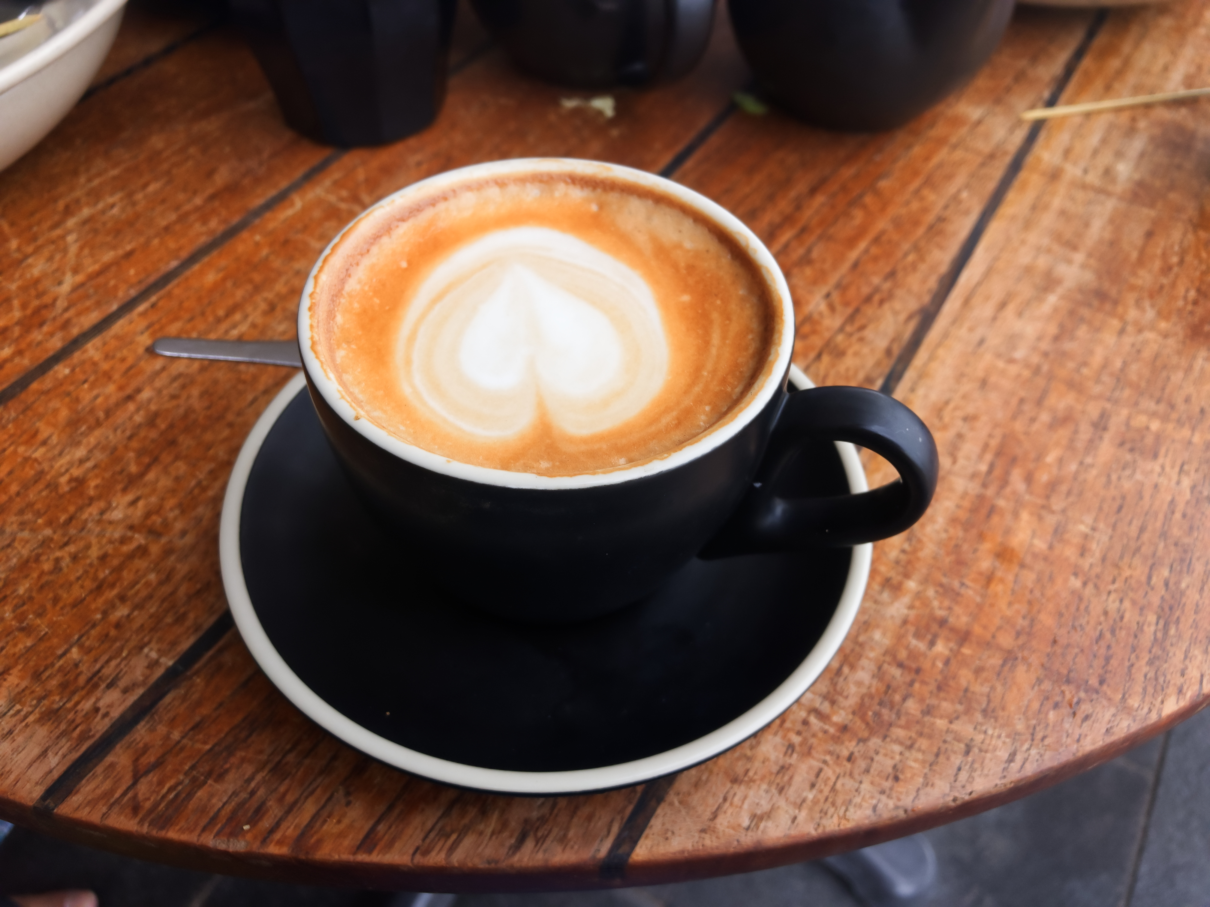 A cup of latte with lunch at Merewether Beach,Australia